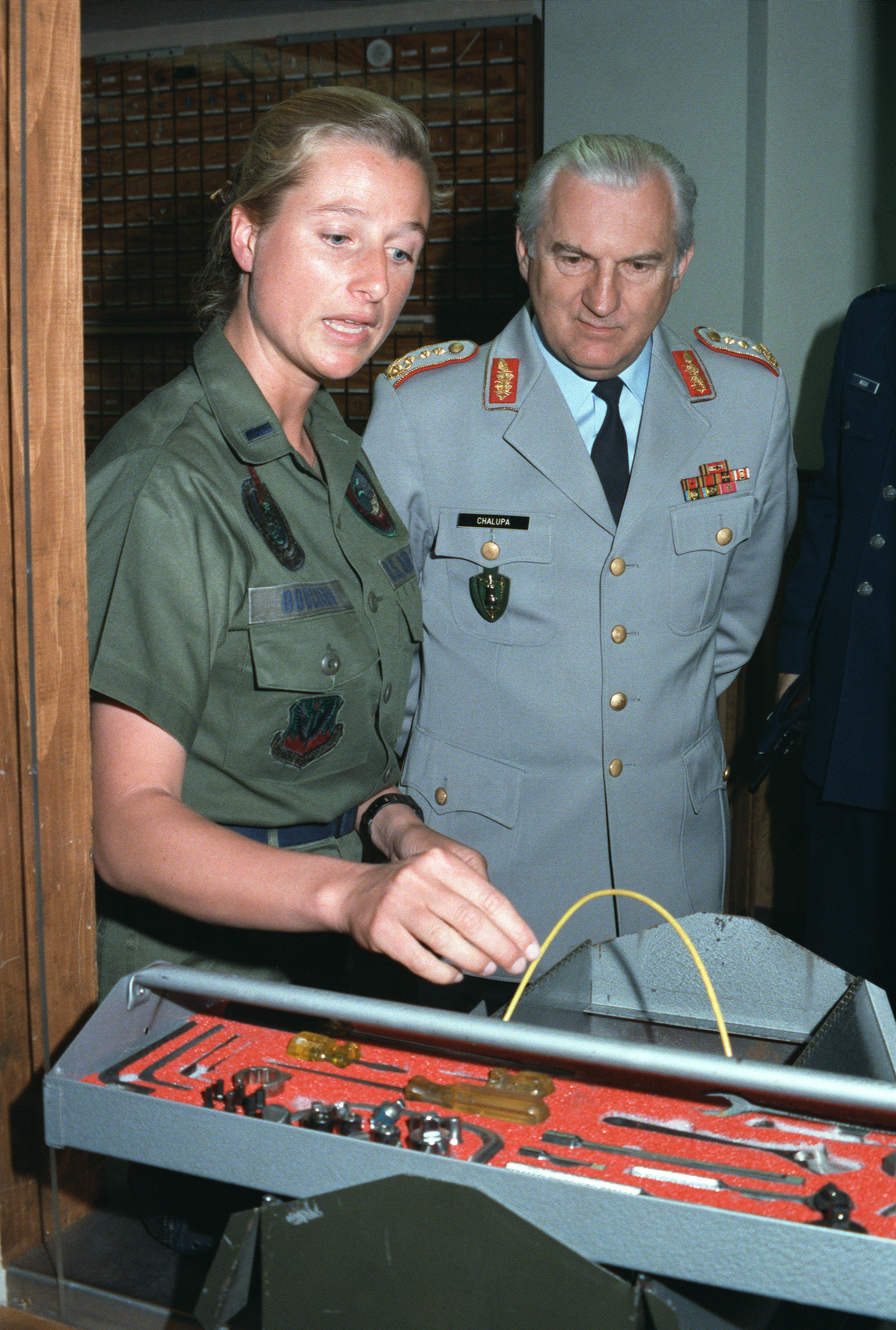 First Lieutenant (1LT) Amy Bouchard, a maintenance officer for the 1st Aircraft Generation Squadron, shows General (GEN) Leopold Chalupa, commander and chief, Allied Forces Central Europe, some of the tools used for aircraft maintenance and repair. Location: Langley Air Force Base, VA.